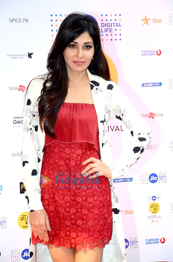 Chopra promoting short film ‘Ouch’ at MAMI 18th Mumbai Film Festival